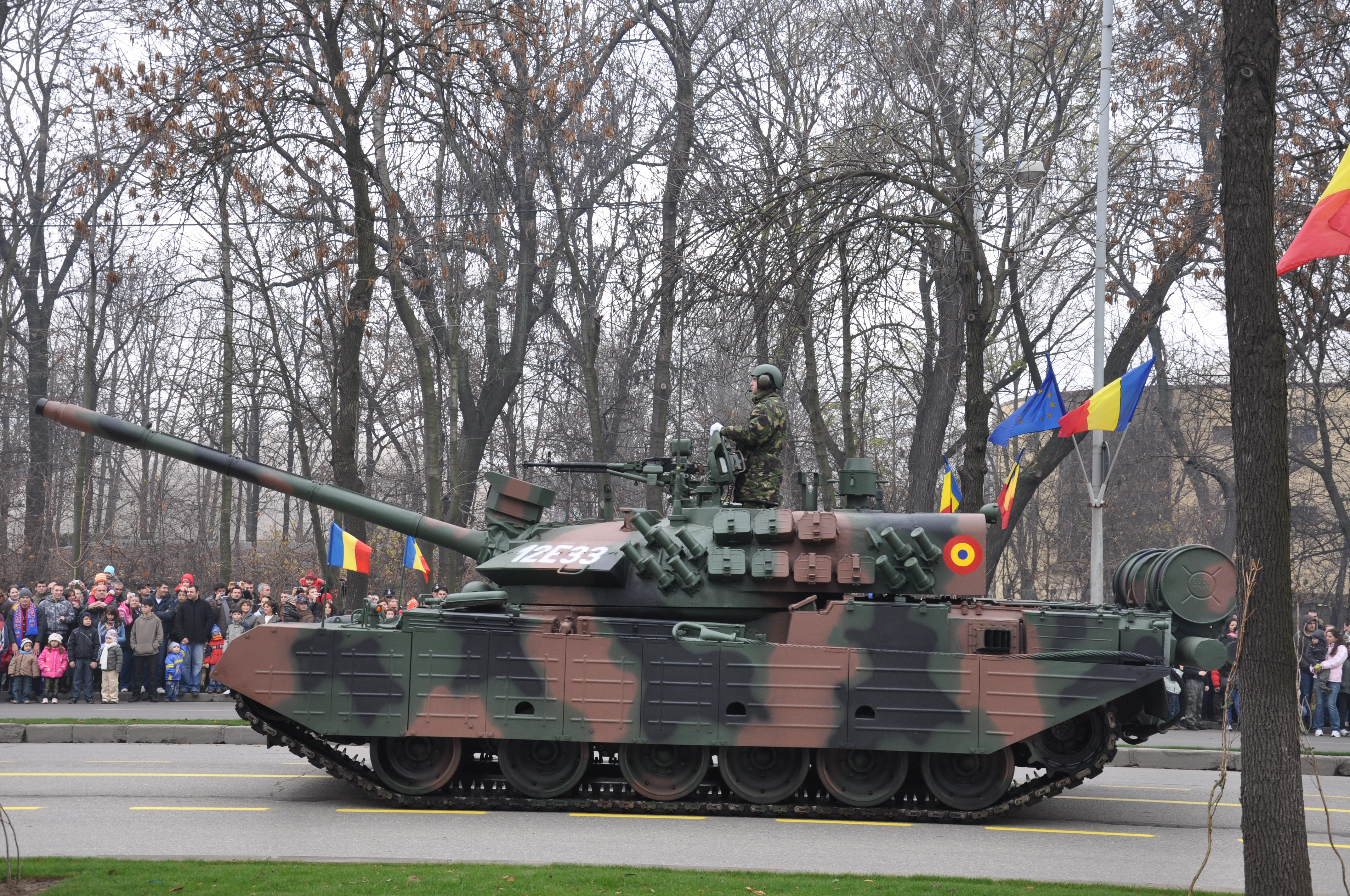 Romanian Tank TR-85M1 at National Day Parade, 2009